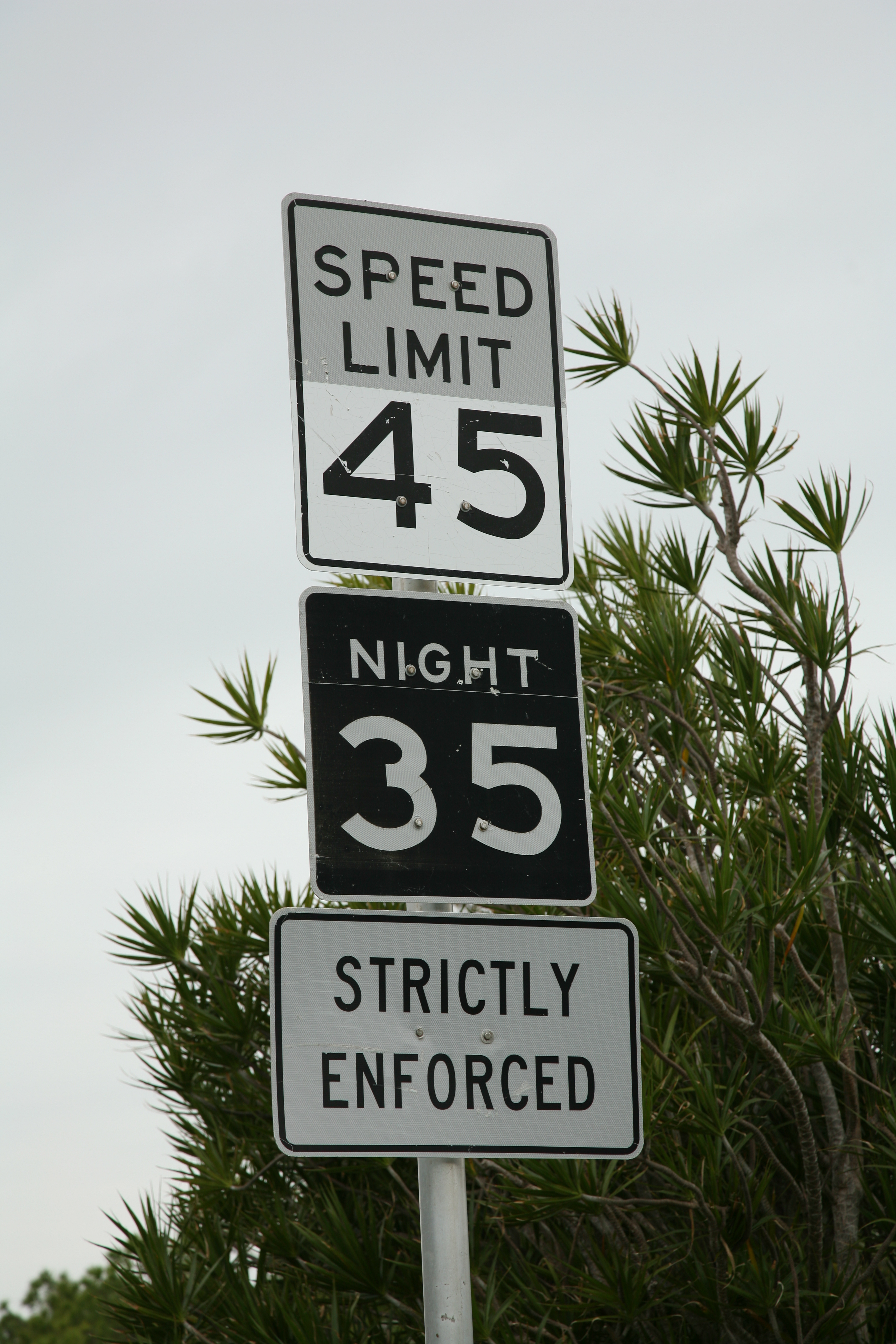 Different speed limits apply for day and night time on this stretch of the U.S. Highway 1 on the Florida Keys (in a Key Deer habitat). Note the nonreflective backing of the day speed limit number. At night only the number on the lower sign is visible in the headlights.